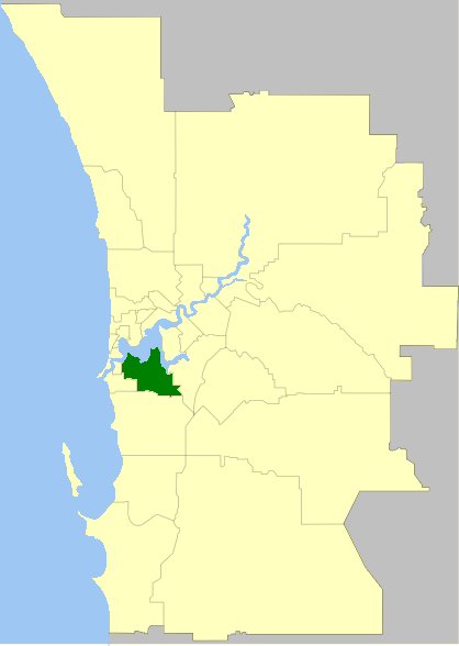 Location of the Local Government Area City of Melville in Perth, Western Australia